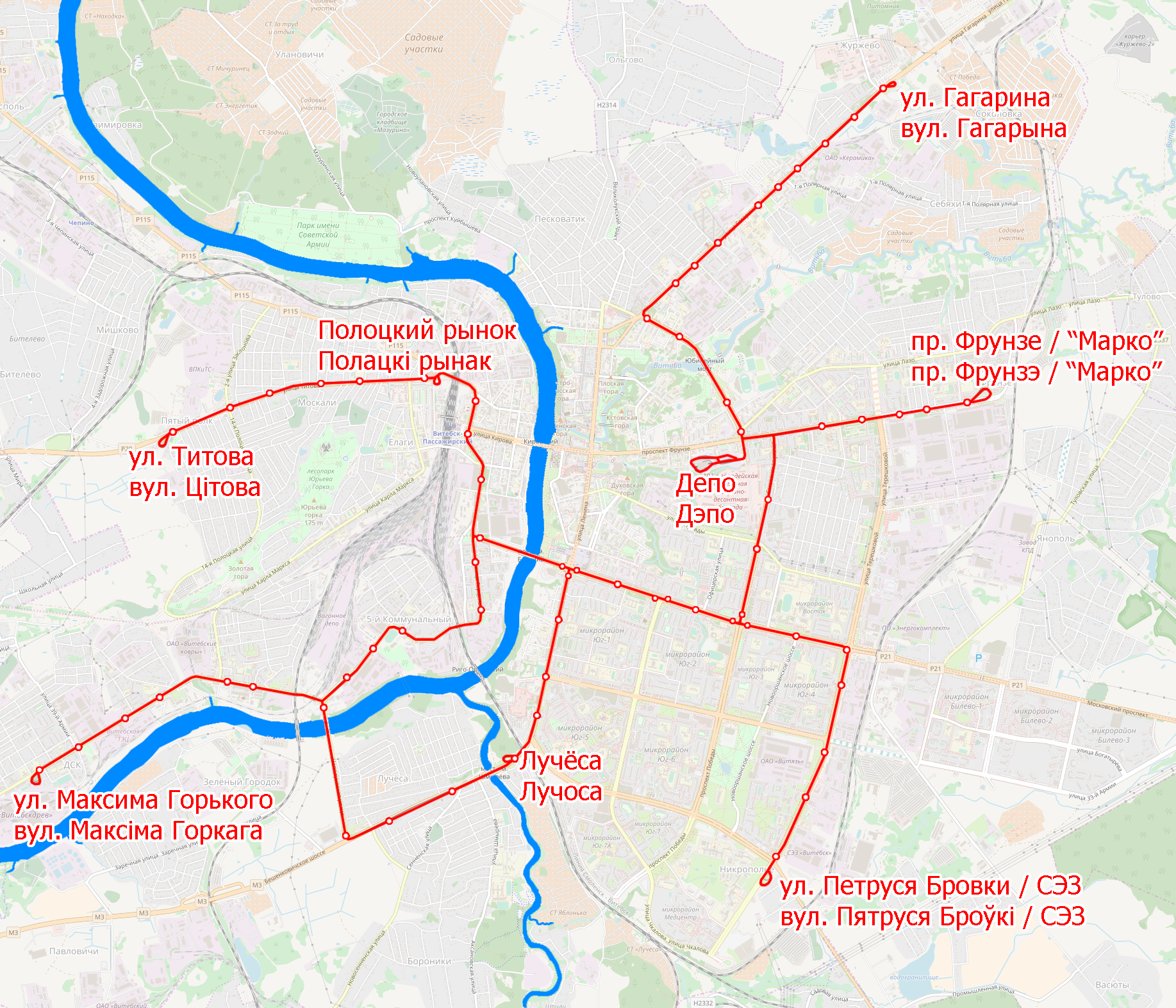 Tram map of Viciebsk (Vitebsk / Witebsk), Belarus. Names of the ending stations are given in Russian and Belarusian